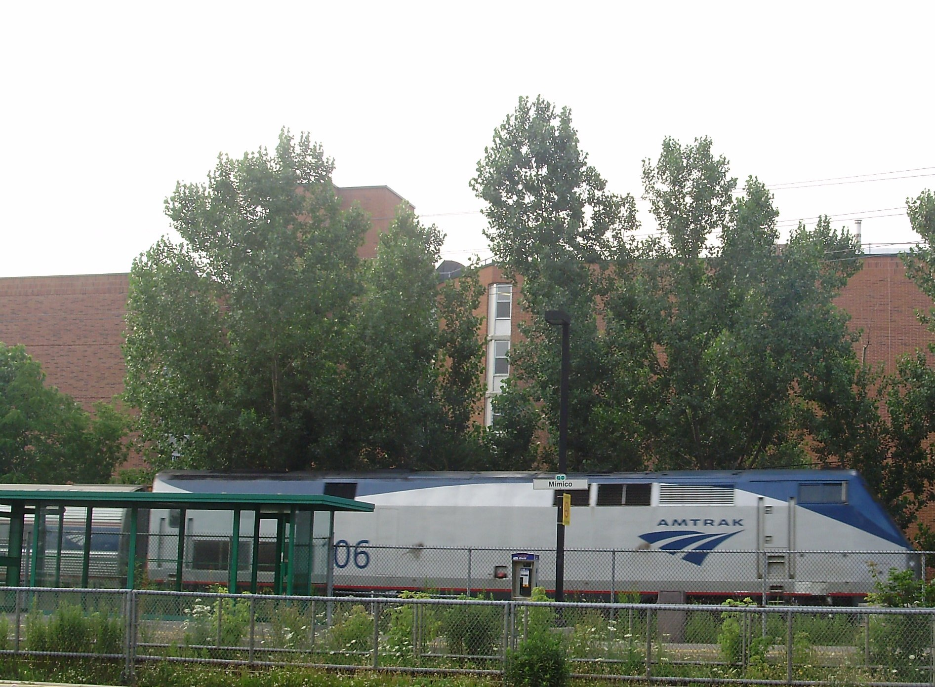 Amtrak locomotive #106, a GE Genesis diesel model produced by GE Transportation, pushing a train east through Mimico GO Station in Toronto, Ontario in preparation for serving the Maple Leaf route.